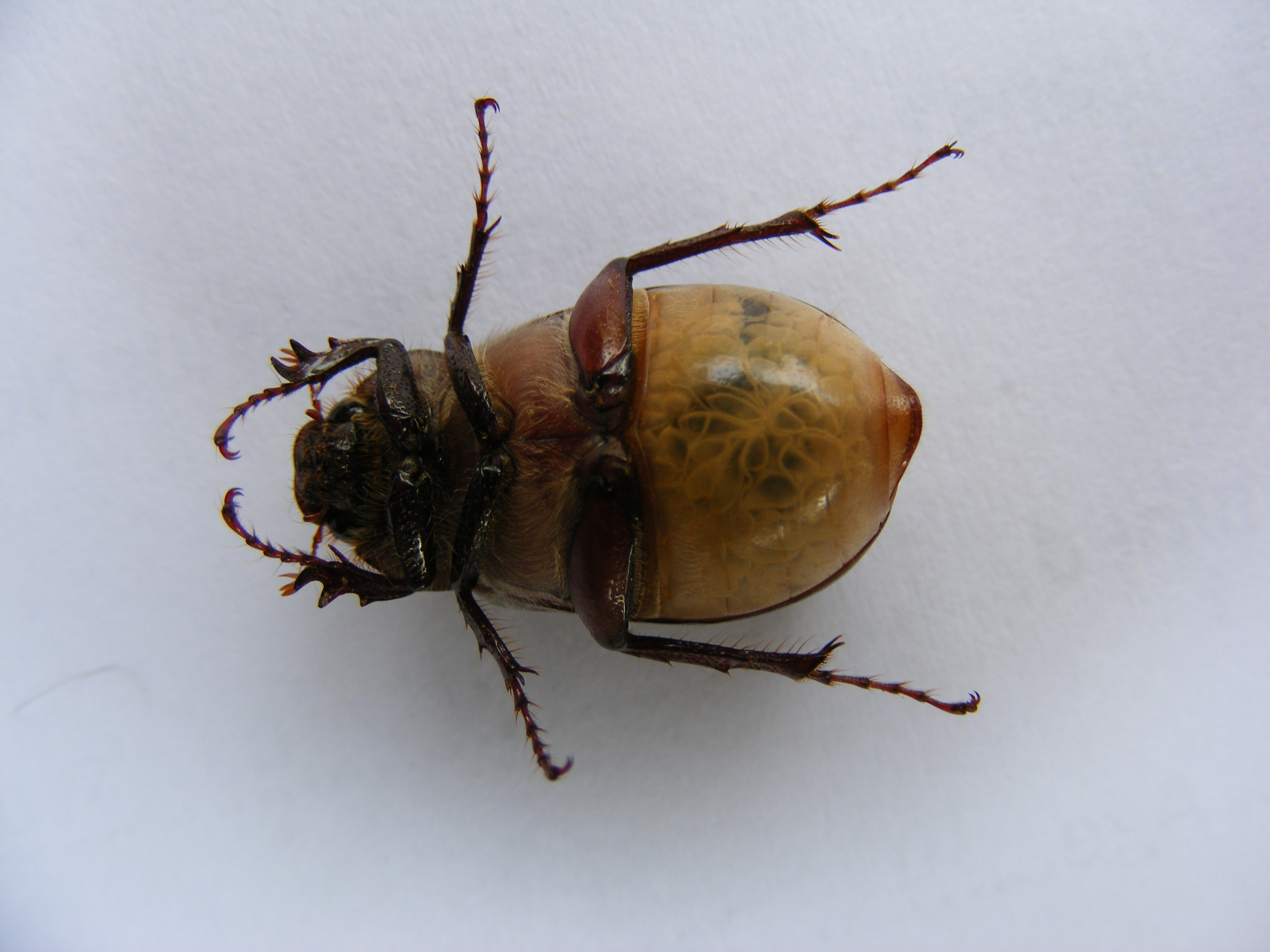 Unidentified beetle (reverse), seen in Thailand. Note the pattern. Thai: Mae ginom.